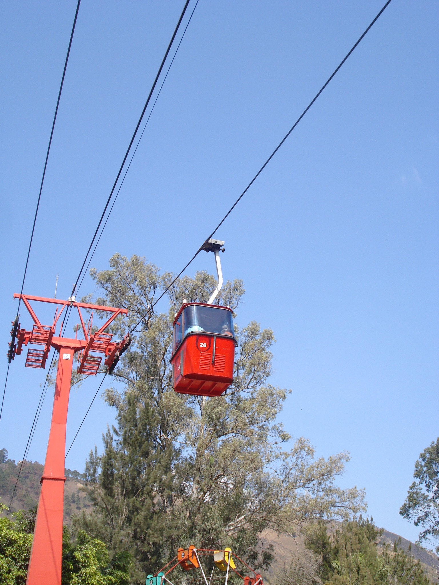 Teleférico Amatitlán